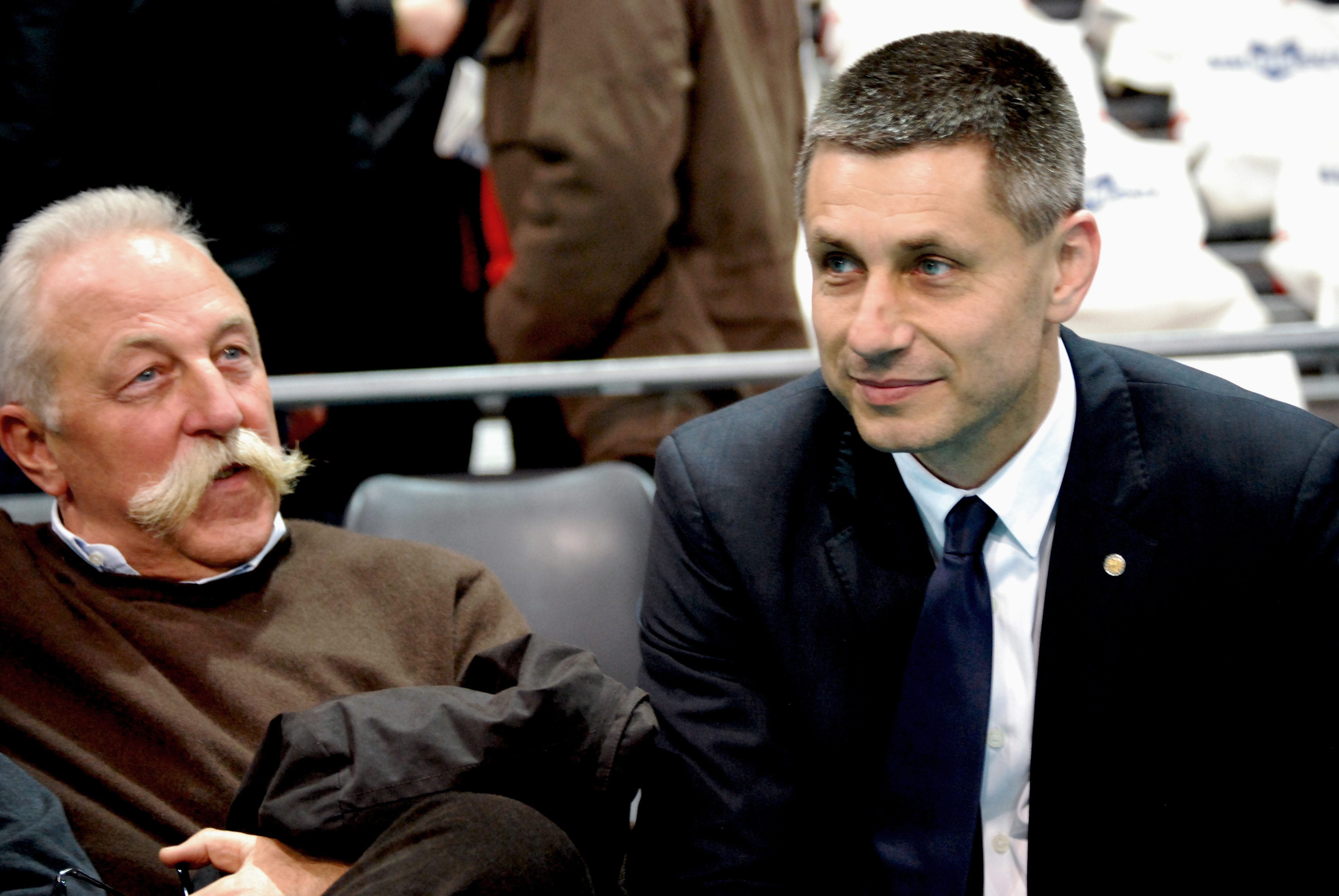 Diego Mosna and Radostin Stojčev during a volleyball match in Piacenza